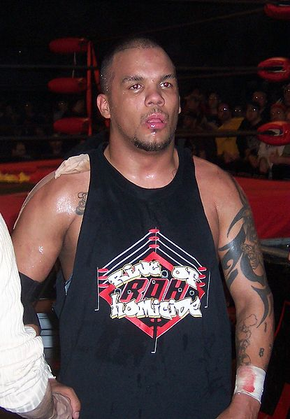 Photo of Homicide at an ROH event in Philadelphia, after his ROH World Championship loss to Takeshi Morishima.